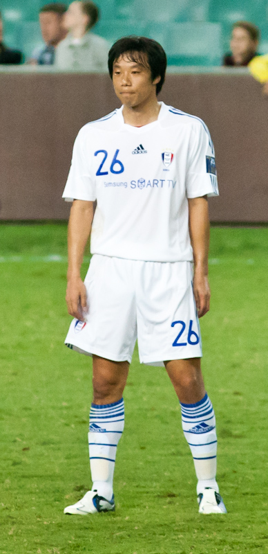 Yeom Ki-Hun playing for Suwon Bluewings in the 2011 Asian Champions League against Sydney FC in Sydney, Australia.